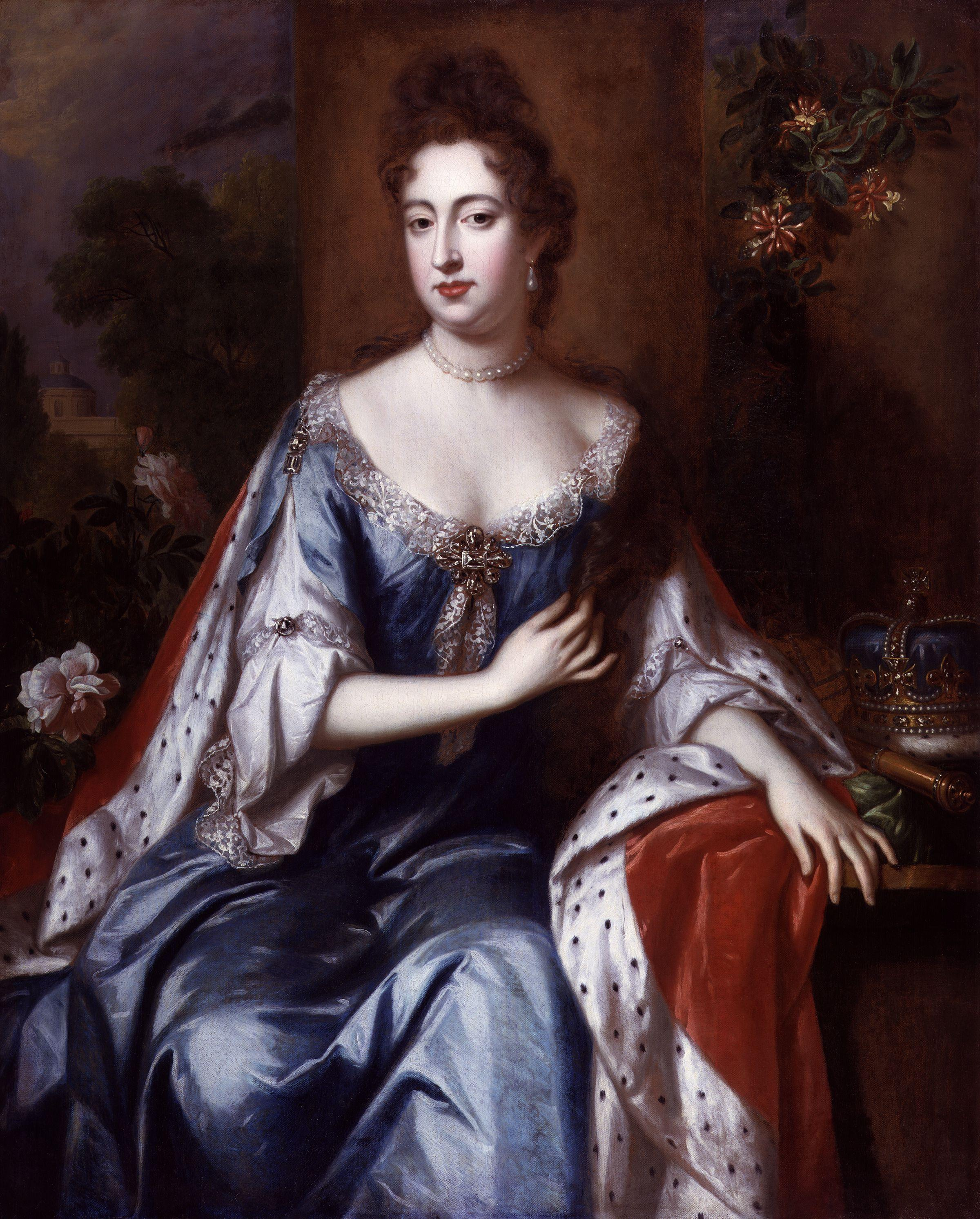 Portrait of Queen Mary II. All images in this batch have been confirmed as author died before 1939 according to the official death date listed by the NPG.